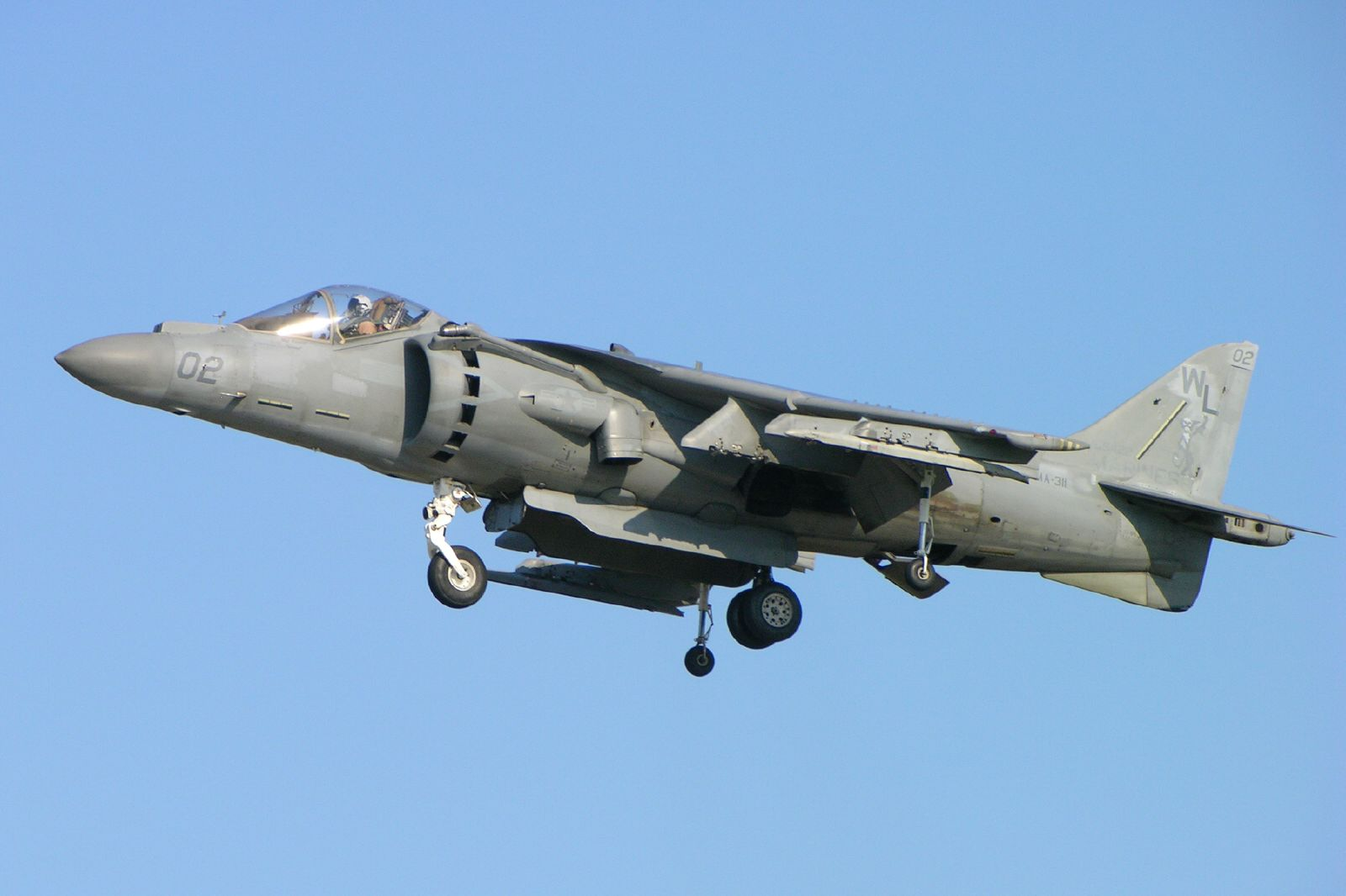 US AV-8B Harrier hovering. Airventure 2005.